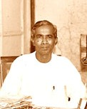 Chief Minister of Bengal Dr Prafulla Chandra Ghosh and Md Ali of finance minister of Bengal before Independesce of India in Undivided Bengal at Writers' Building in 1947